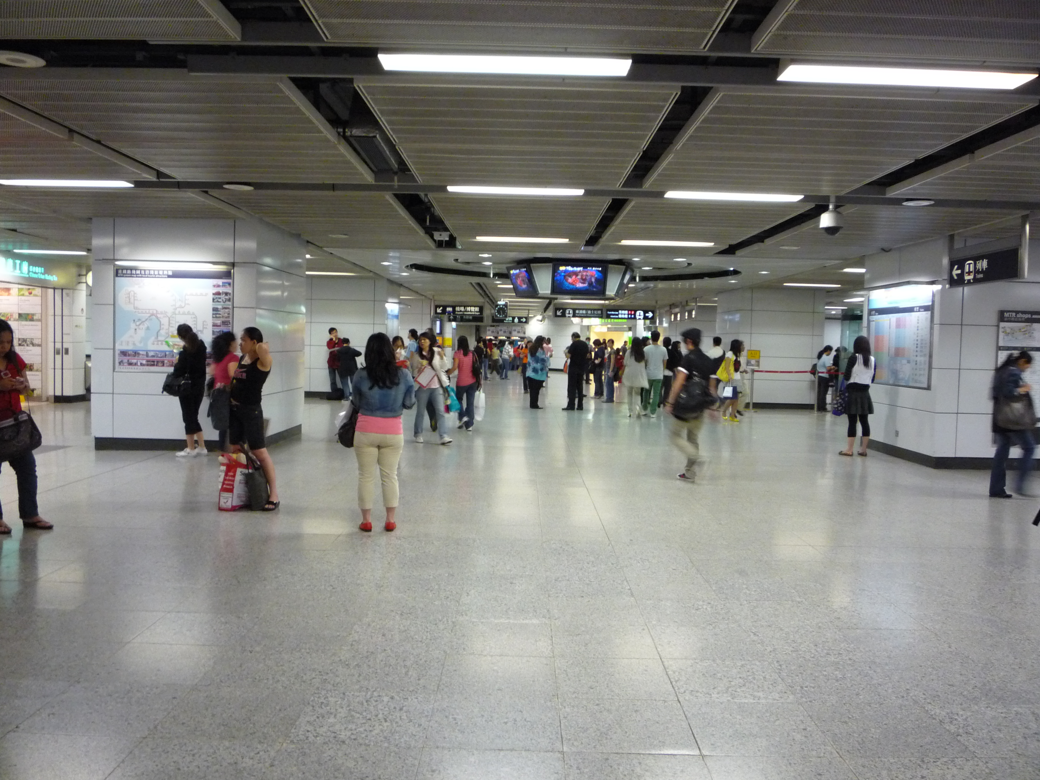 MTR Central Station Pedder Street Concourse